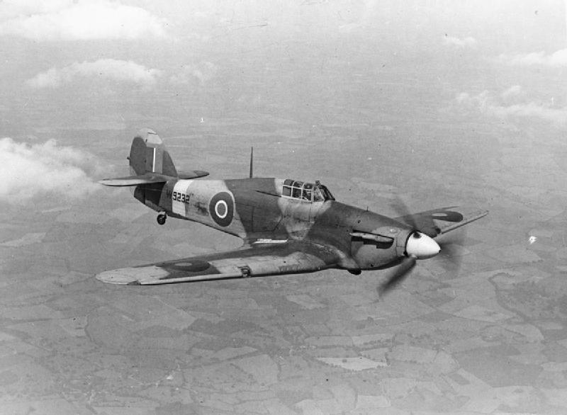 Aircraft of the Royal Air Force, 1939-1945- Hawker Hurricane. Hurricane Mark I, W9232, of the Station Flight at Northolt, Middlesex, in flight. This aircraft formerly served with Nos. 85, 23 and 247 Squadrons RAF, and with No. 55 Operational Training Unit. It was subsequently shipped to India.